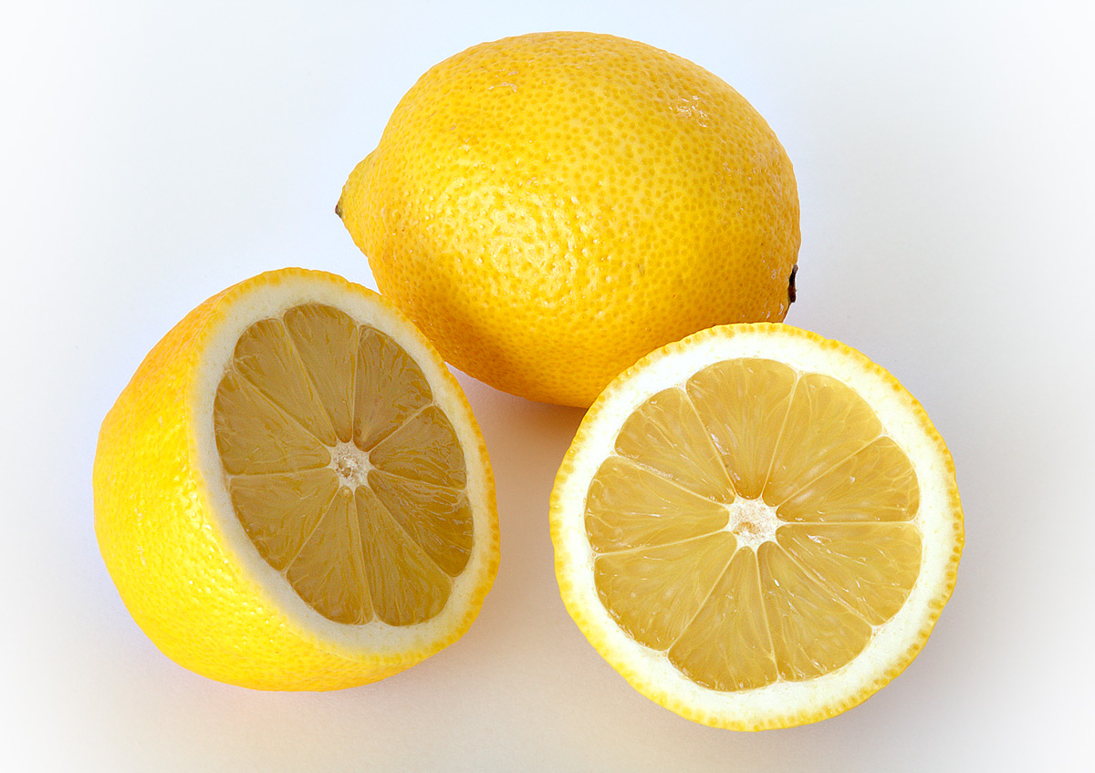 This image shows a whole and a cut lemon.